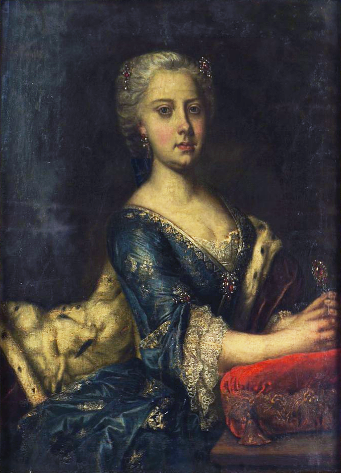 Portrait of Countess Palatine Caroline of Zweibrücken (1721-1774)